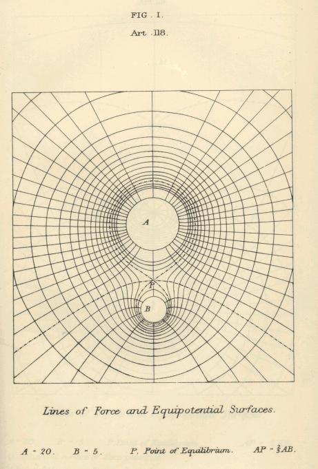 Lines of Forces and Equipotential Surfaces. In this figure we have the equipotential surfaces surrounding two points electrified with quantities of electricity of the same kind and in the ratio of 20 to 5. Here each point is surrounded by a system of equipotential surfaces which become more nearly spheres as they become smaller, but none of them are accurately spheres.